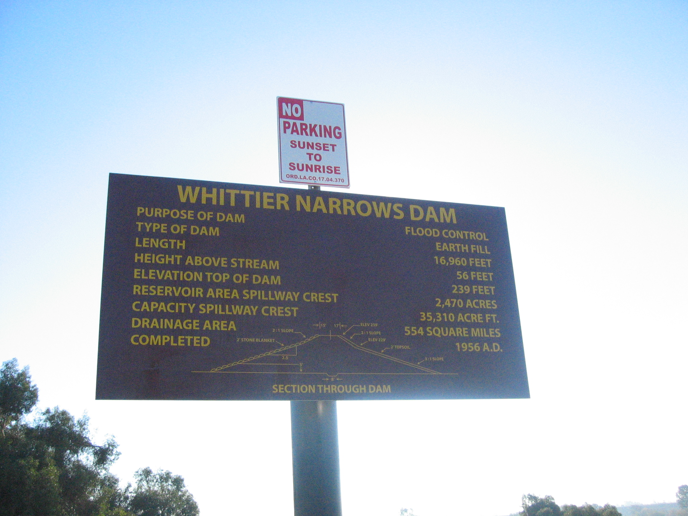 Whittier Narrows park sign, Los Angeles County, California. I took this picture